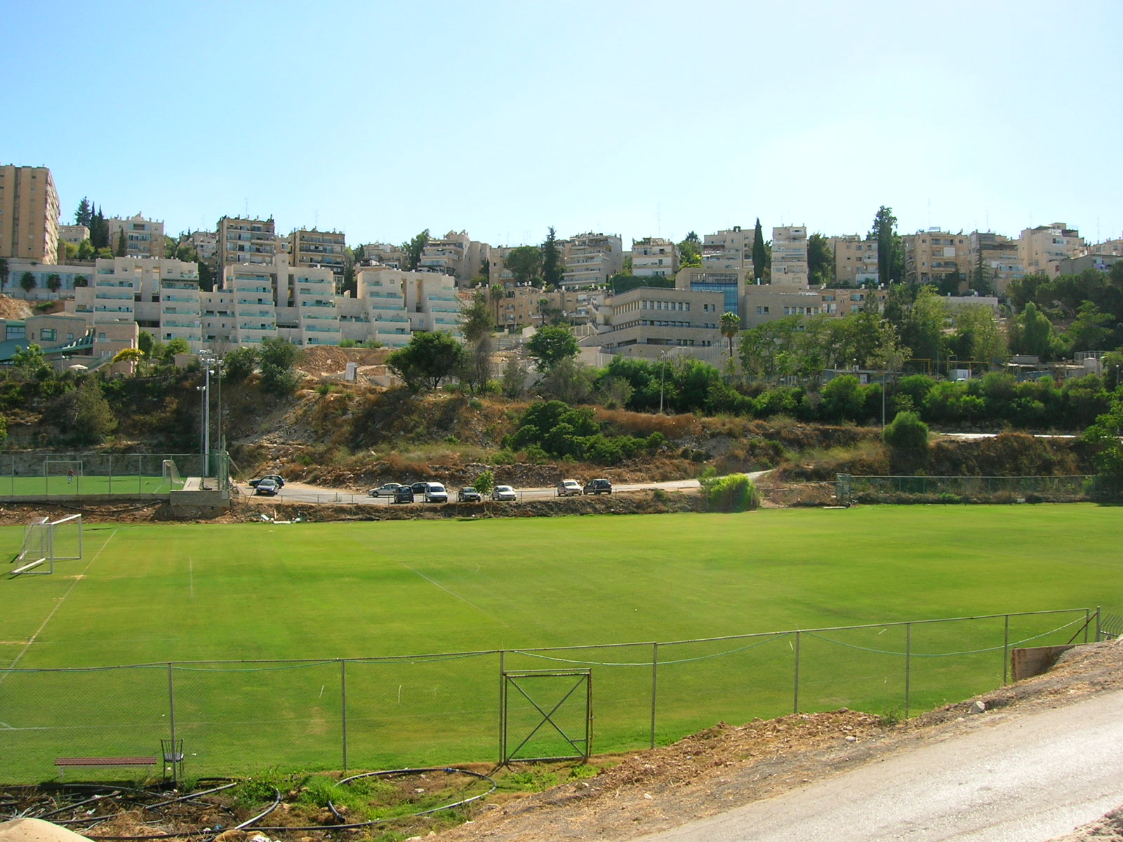 Bayit VeGan Complex, Jerusalem